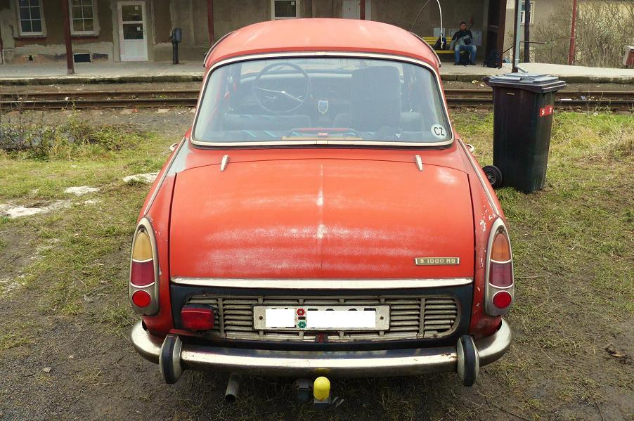 Skoda 1000MB from the back.